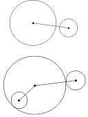 Mutual position of two circles